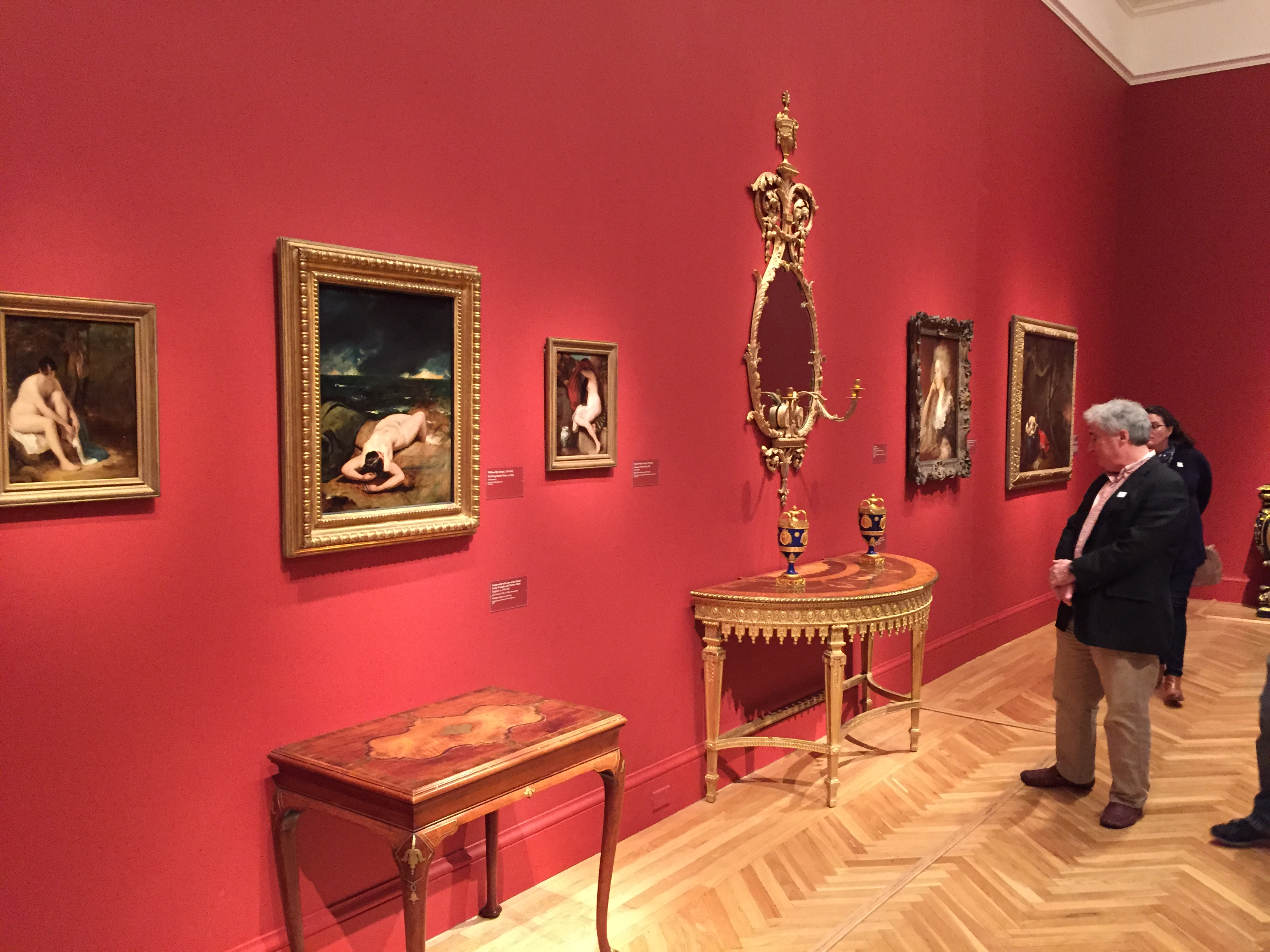 California Palace of the Legion of Honor